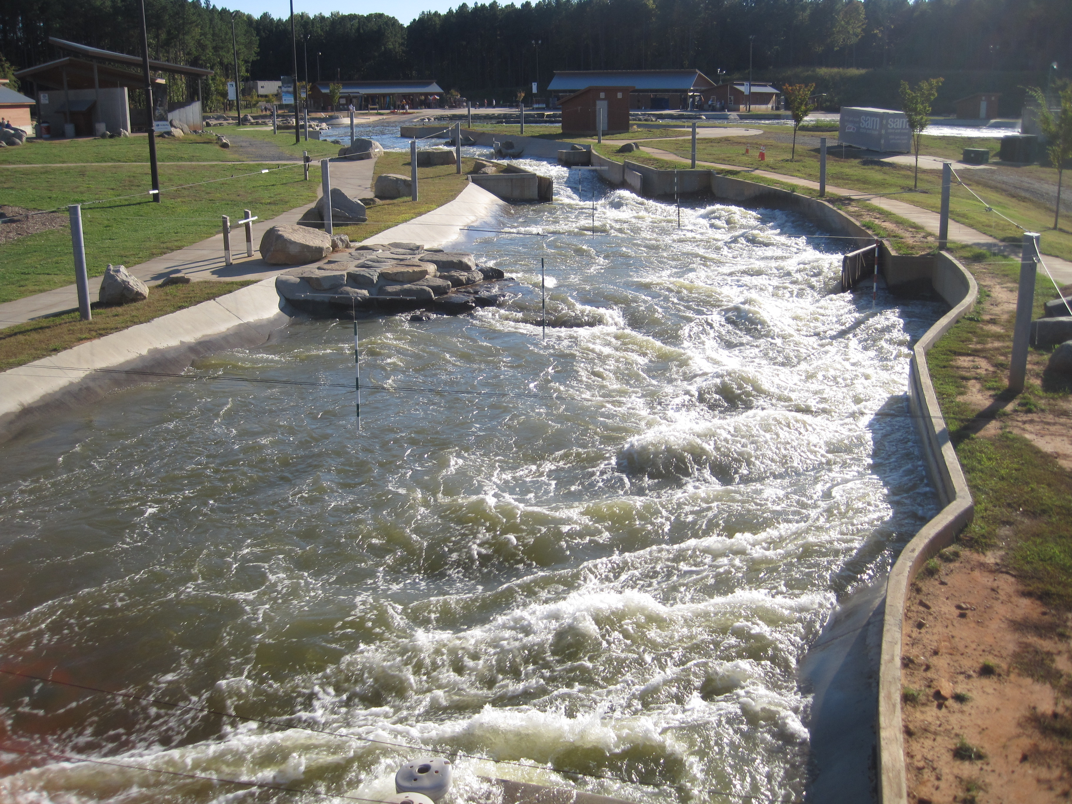 Top of the slalom competition channel, showing the three barn door diverters.